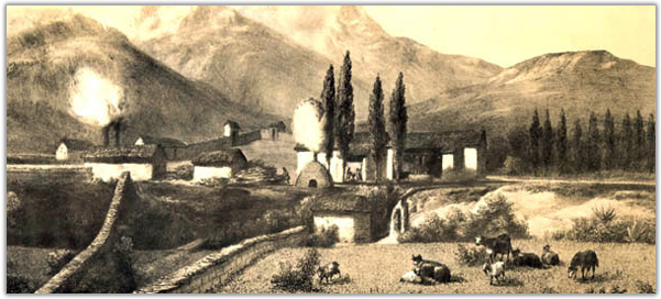 The village of Salamanca was founded on April 13, 1843, by resolution of the Directors of the Orphans Home of Santiago, and designated by the name of Salamanca in honor of Doña Matilde Salamanca, which should bequest to pious works the land on which sits the town, plus valuable contours.